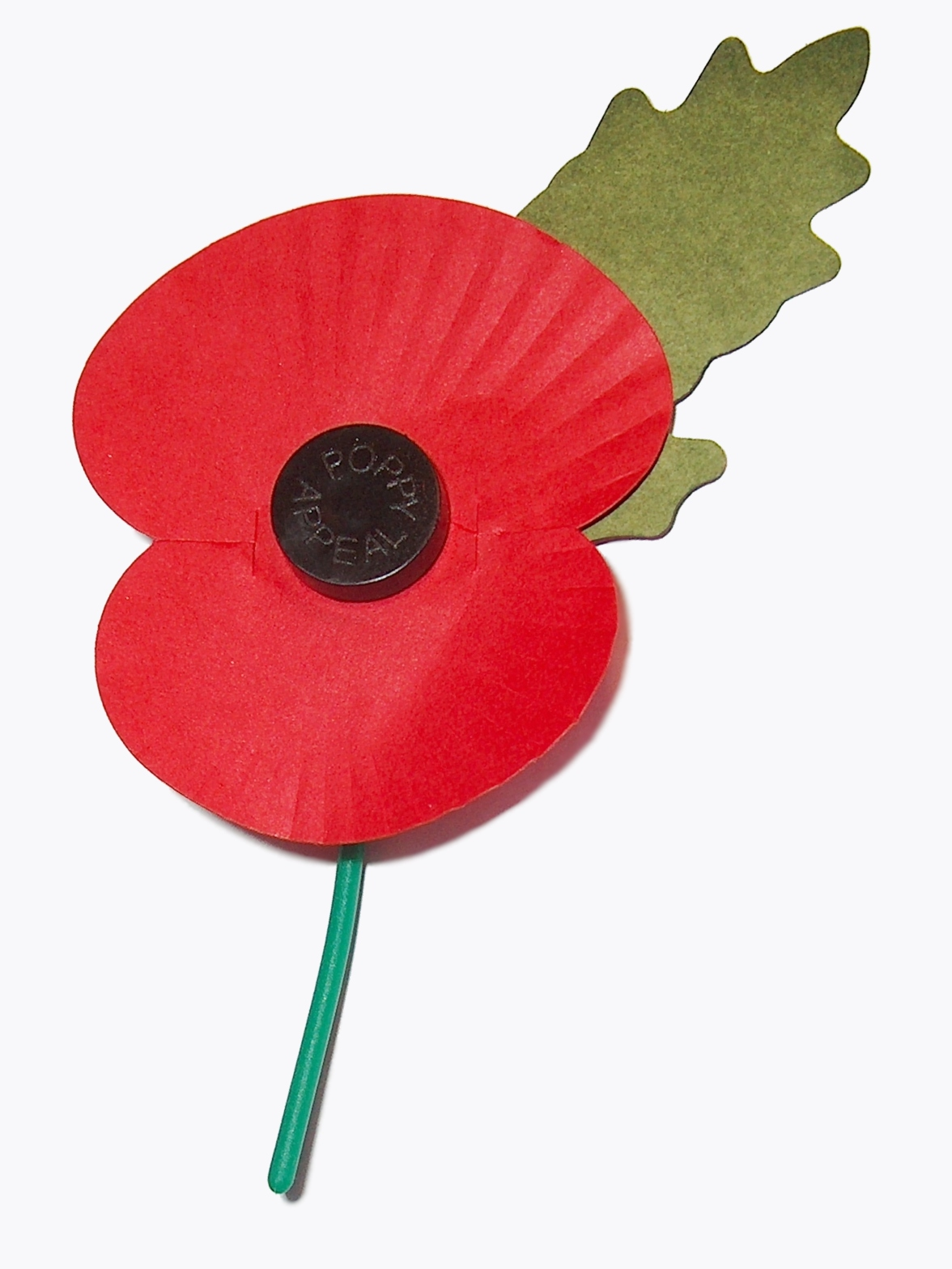 An artificial corn poppy, made of plastic and cardboard by disabled ex-servicemen, worn in the United Kingdom and other Commonwealth countries from late October to Remembrance Sunday in support of the Royal British Legion's Poppy Appeal and to remember those servicemen and women who died in war. Wearing poppies to remember the war dead comes from the poem In Flanders' Fields by Lieutenant-Colonel John McCrae which concludes with the line "We shall not sleep, though poppies grow, In Flanders fields". Although originally worn to commemorate those who fell in the First World War, poppies are also worn for the fallen of every conflict since.